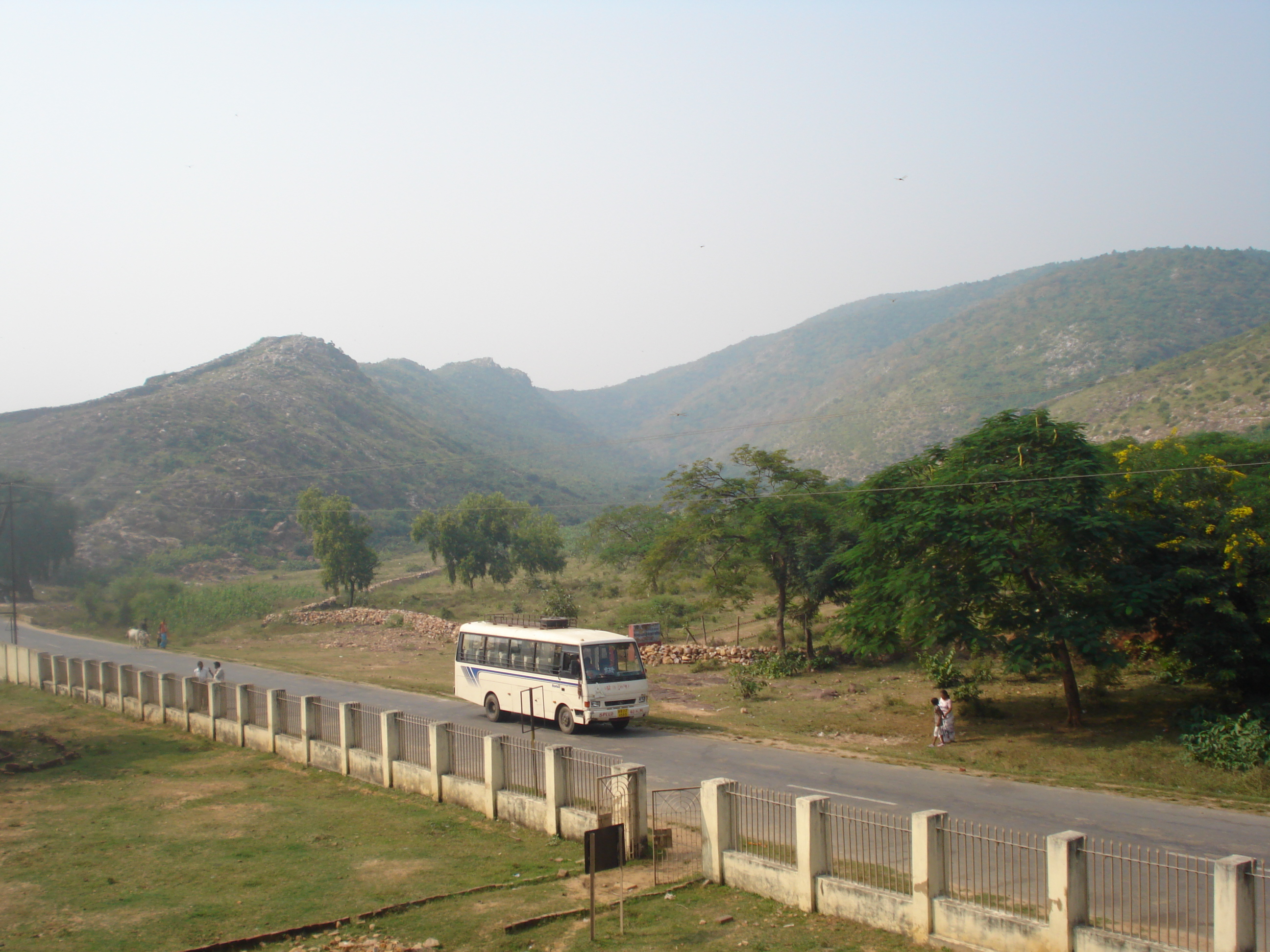 Jarasandha's_Akhara is an ancient historical monument at Rajgir in Bihar, India